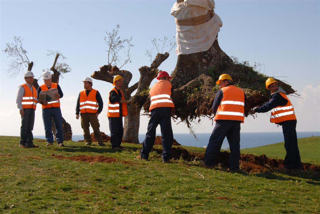 Olive Trees Transplant Program at Navarino dunes